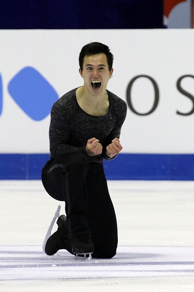 Patrick Chan during the 2016 Four Continent Championships